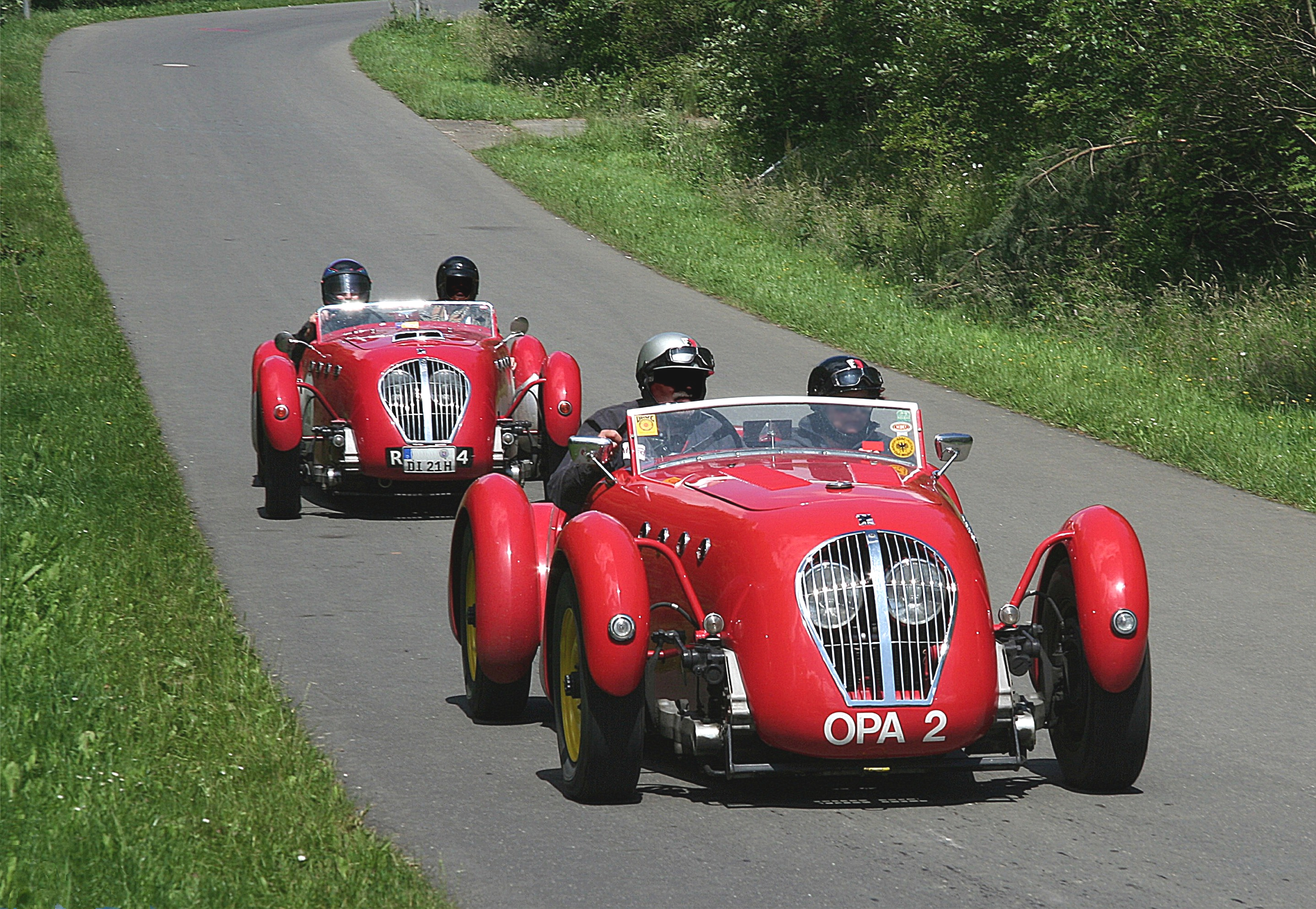 A 1949 Healey Silverstone on the Nürburgring